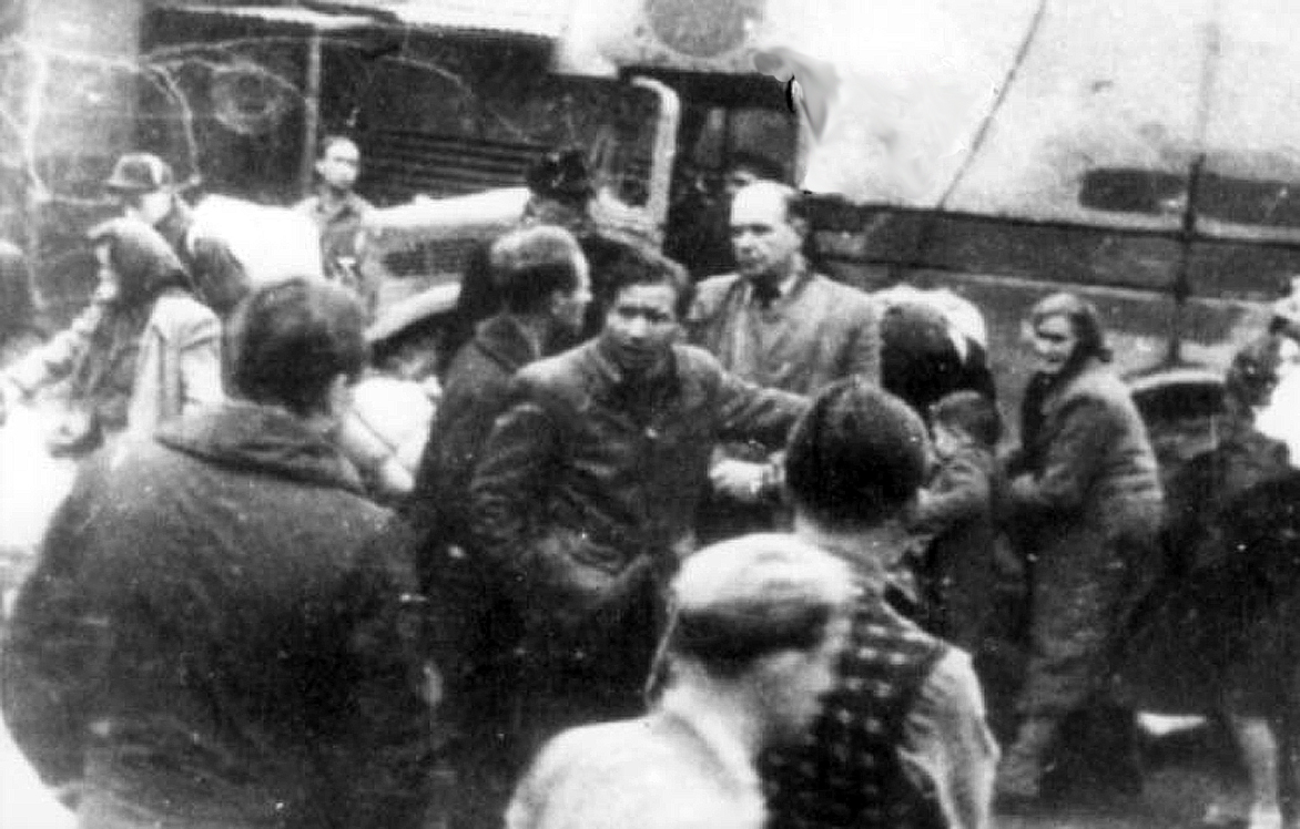 Mordechai Rosman in the Pöppendorf DP camp - 1947